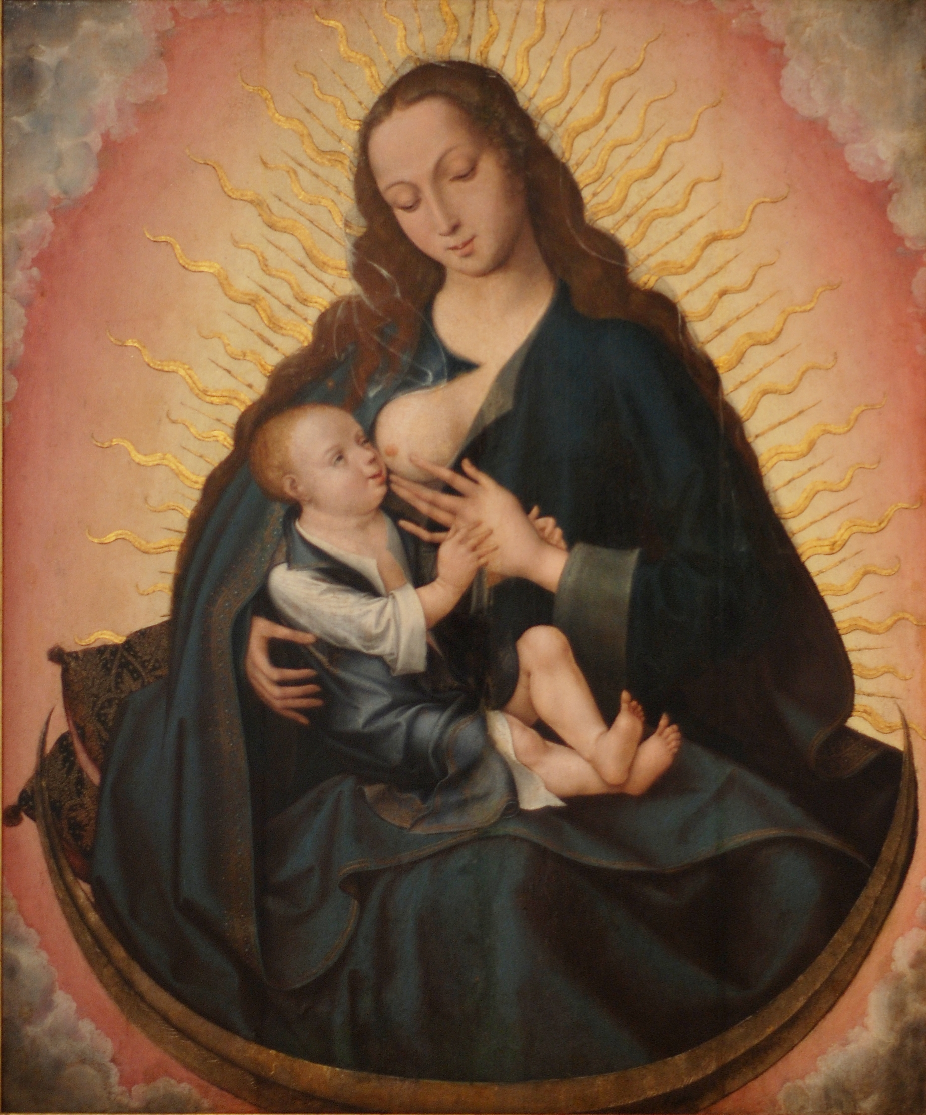 Nursing Madonna (Madonna Lactans) by anonymous master of Bruges, 16th century. Museu de Aveiro, Portugal